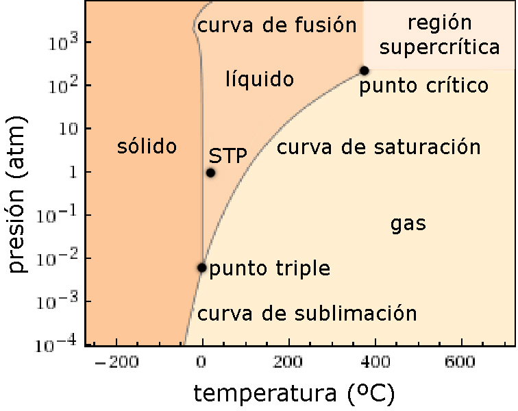 pressure/temperatura/water